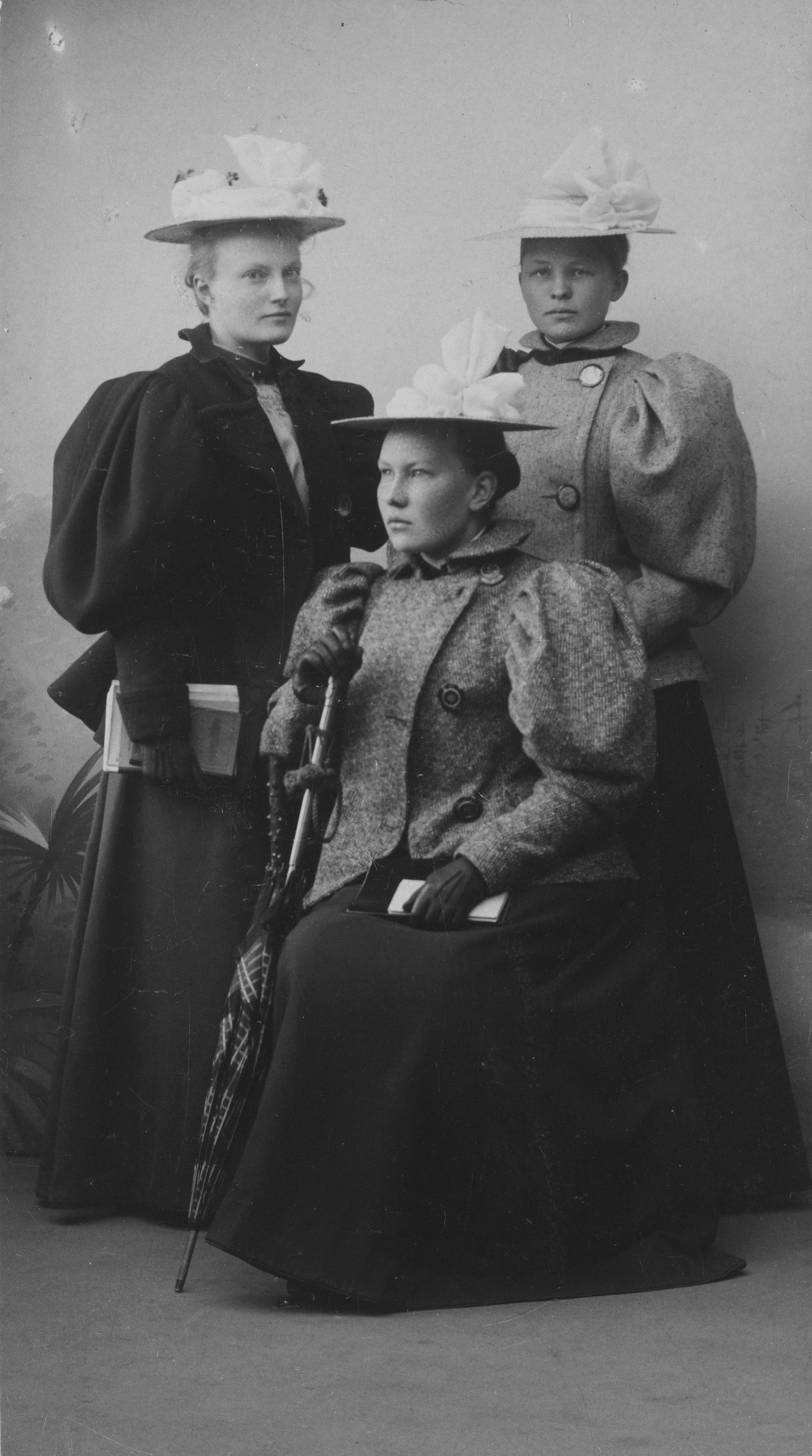 Photograph of Alma Hildén (1873–1940), Laimi Leidenius (1877–1938) and Hilla Castrén.